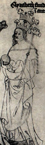 Elisabeth Richeza of Poland